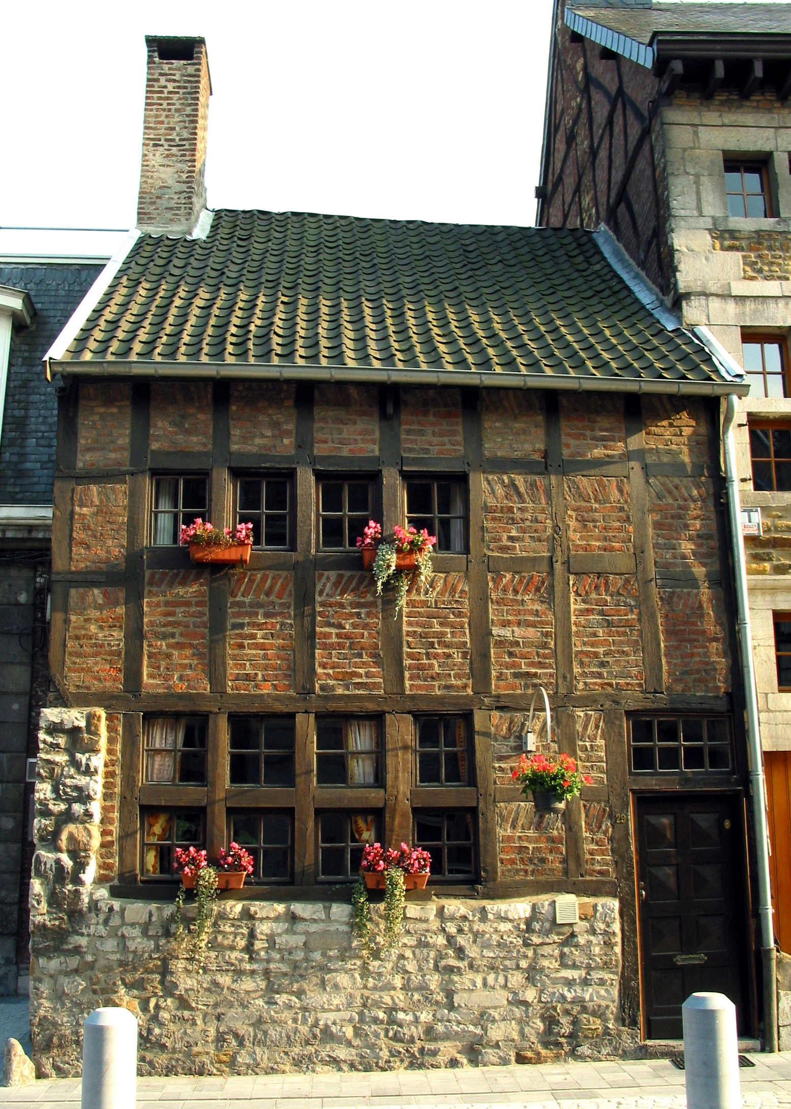 Theux (Belgium), timbered house (XVIIth century).